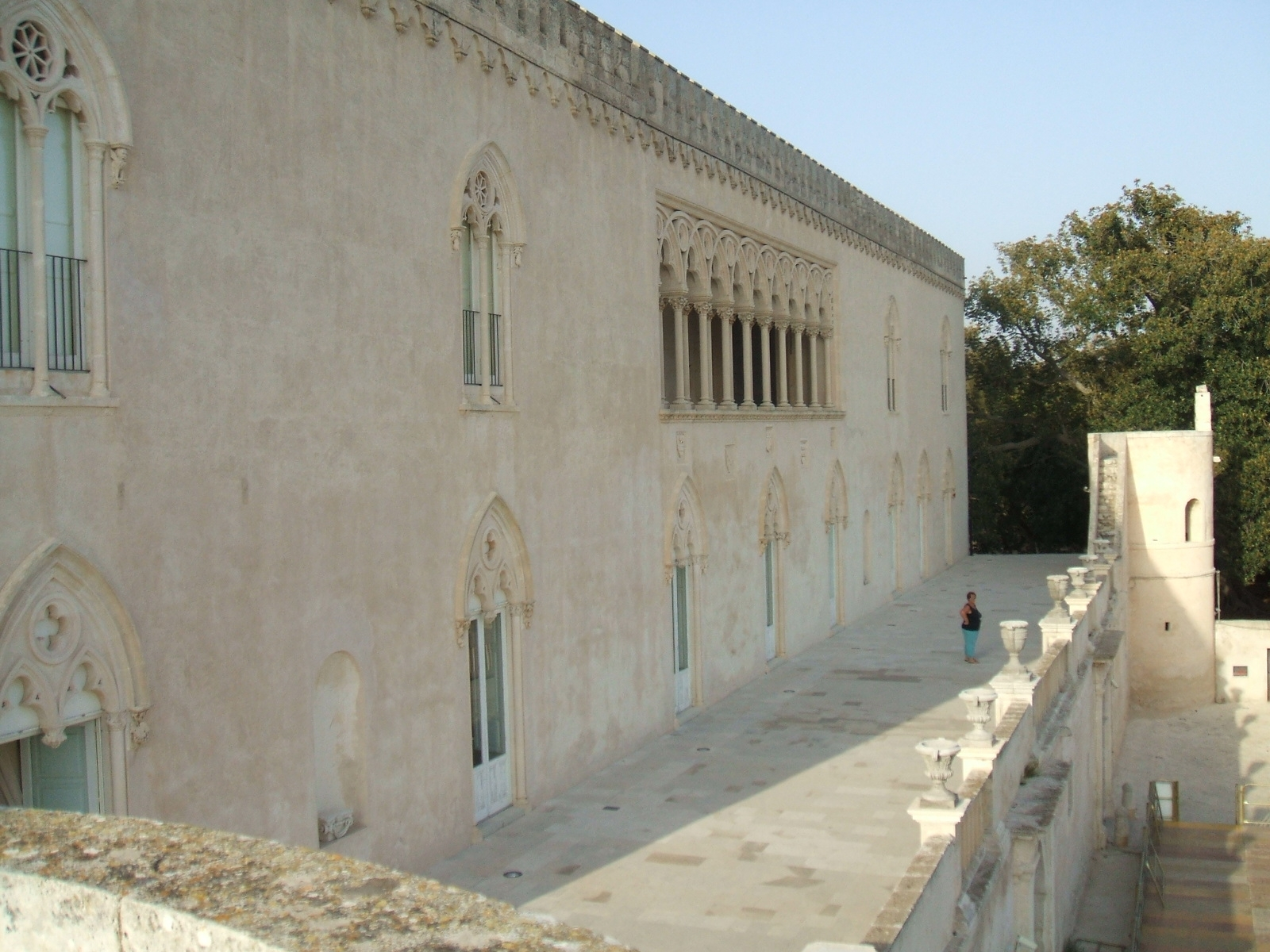 Castle of Donnafugata (Ragusa, Sicily) : XIXth century ; view of the loggia.